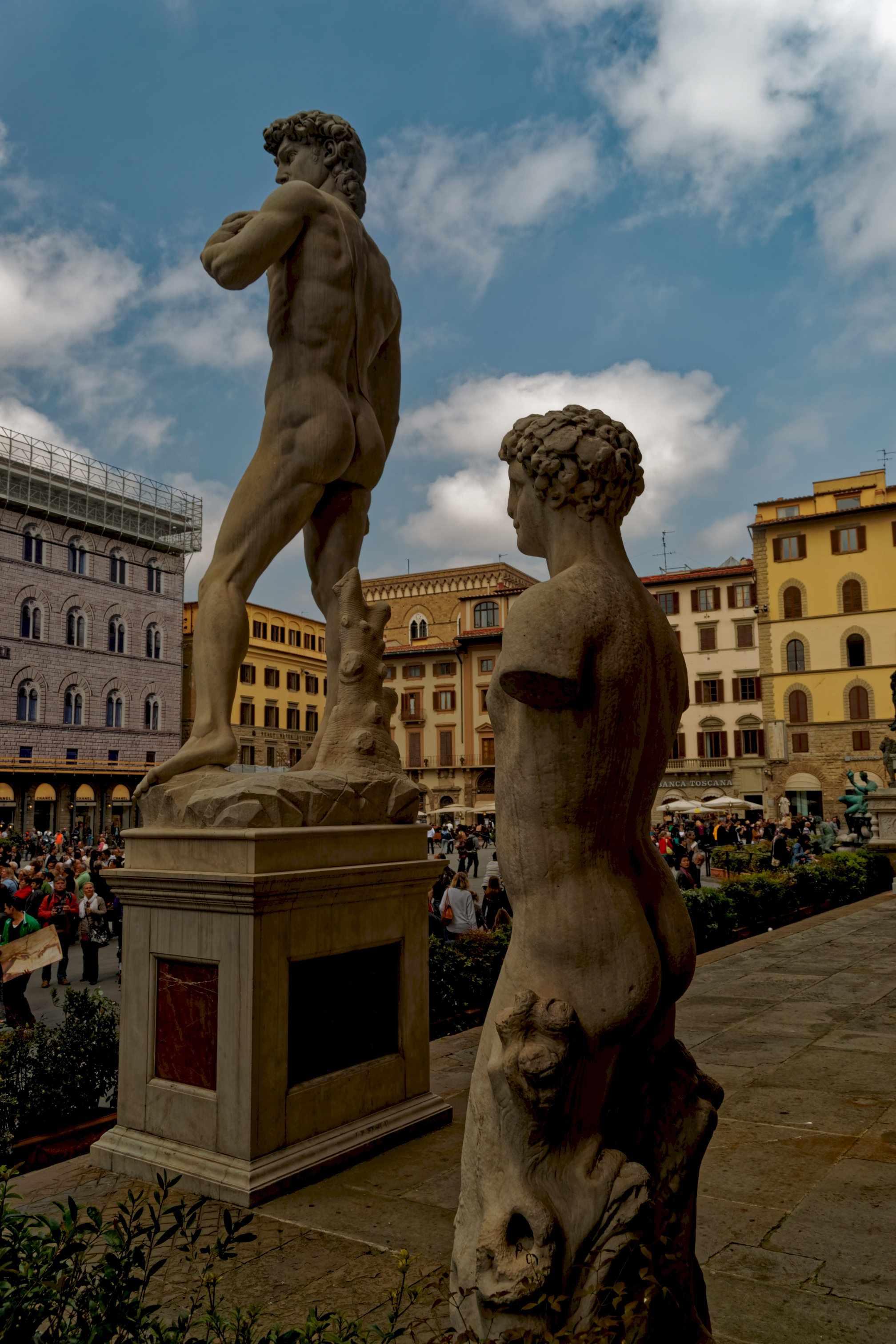 Firenze / Florence - Piazza della Signoria - Entrance to Palazzo Vecchio - View NW on Michelangelo's David 1504 (Copy 1873) & Woman Torso